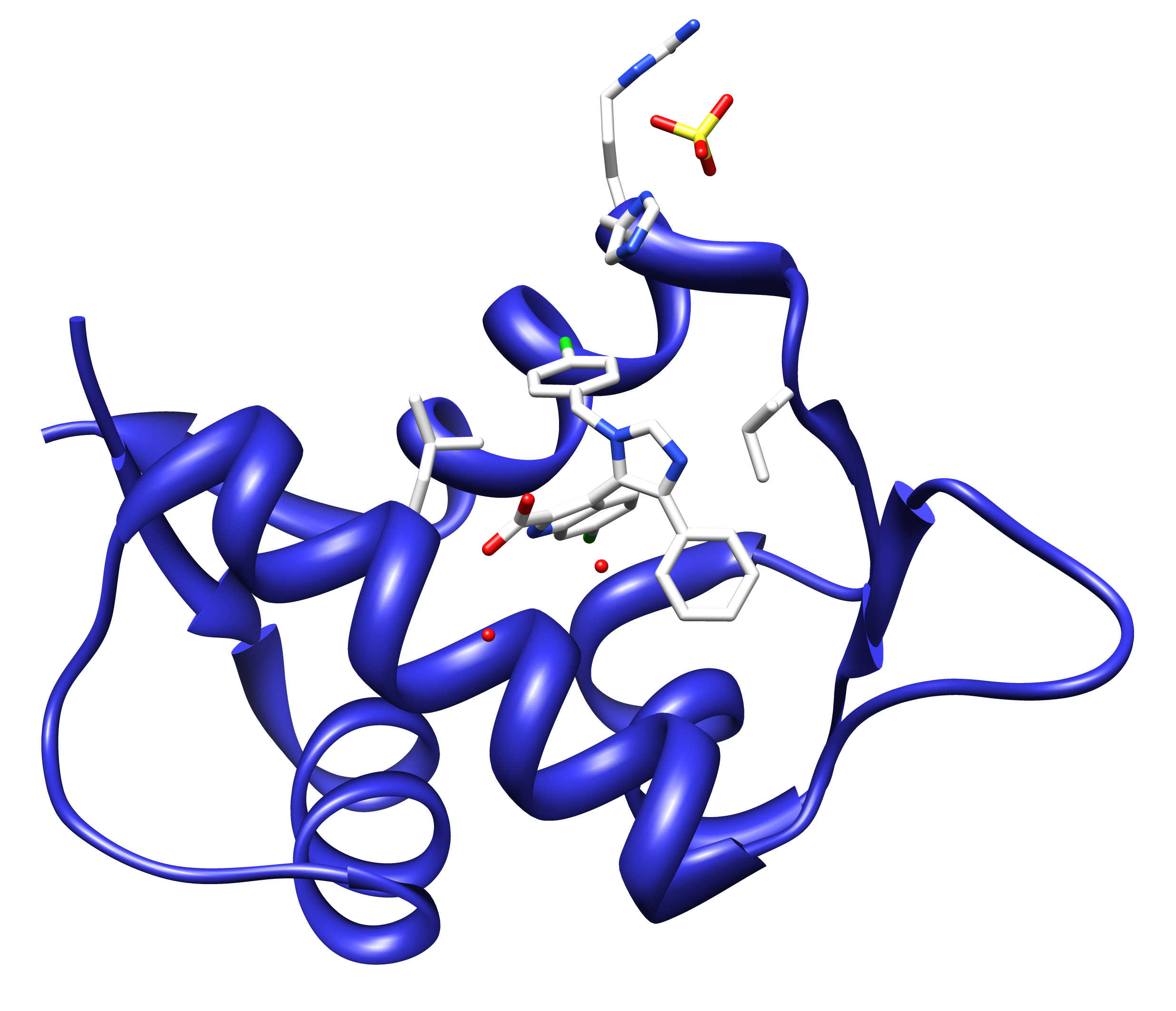 PDB 3lbk - Made with Chimera